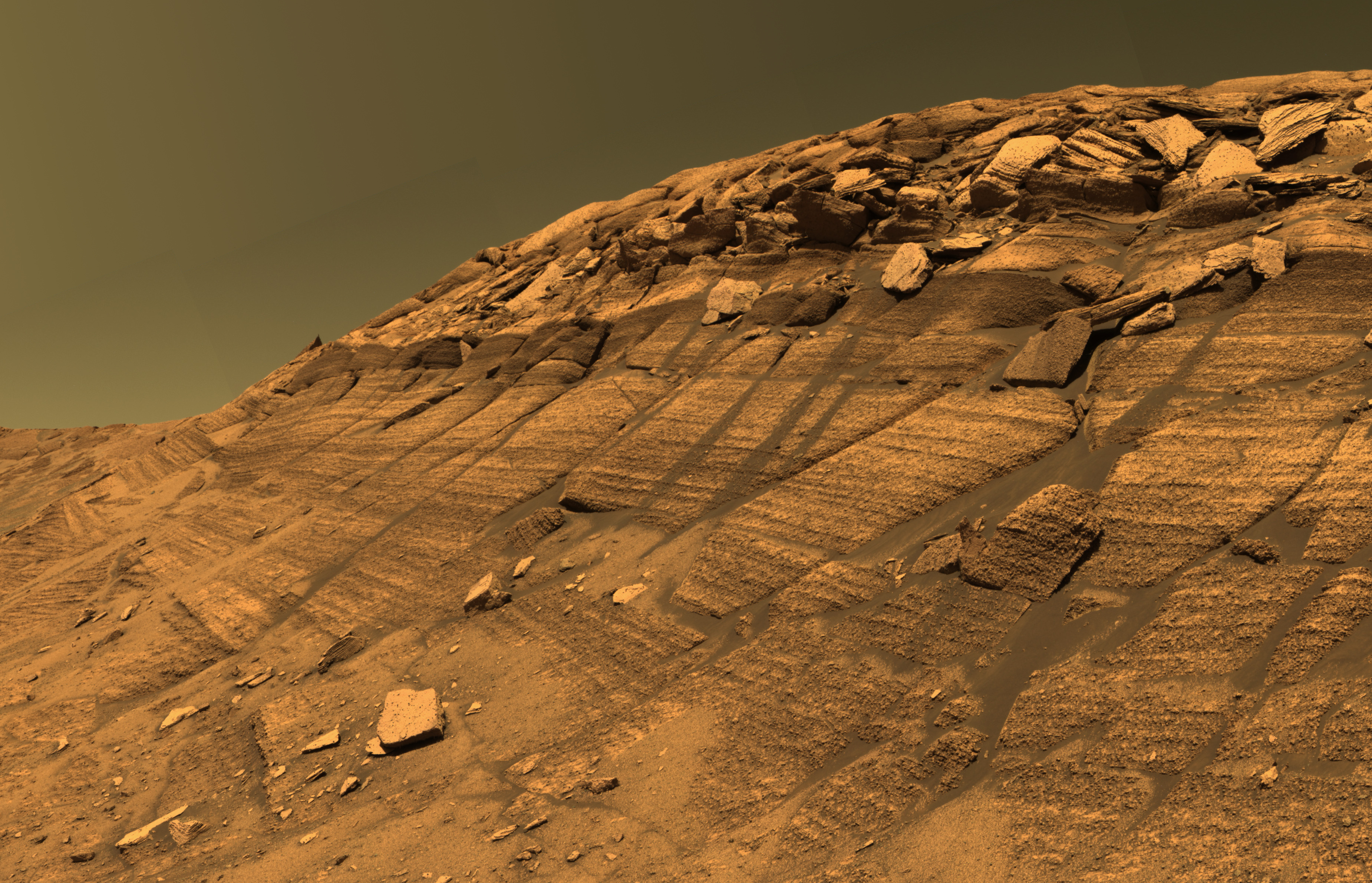 Burns Cliff inside of Endurance Crater This image was downloaded off of NASA's website and has the same permissions as other images on this wiki topic (Opportunity rover). This image has been cropped and has had missing sky pixels filled in. The image is based on an approximate true-color mosaic based on multiple frames taken through color filters. The color is approximate because the red filter is actually an infrared filter, which is used more often than a true red filter by the rovers for its scientific value. The rovers do have a red filter, but due to the limits of data transmission from Mars, it is often not used. Some suggest that the actual sky color would have a bit more orange in it if a true red filter was used. Opportunity had a bit of difficulty reaching this spot due to the slope. Its recorded wheel movement indicated a high degree of slippage.